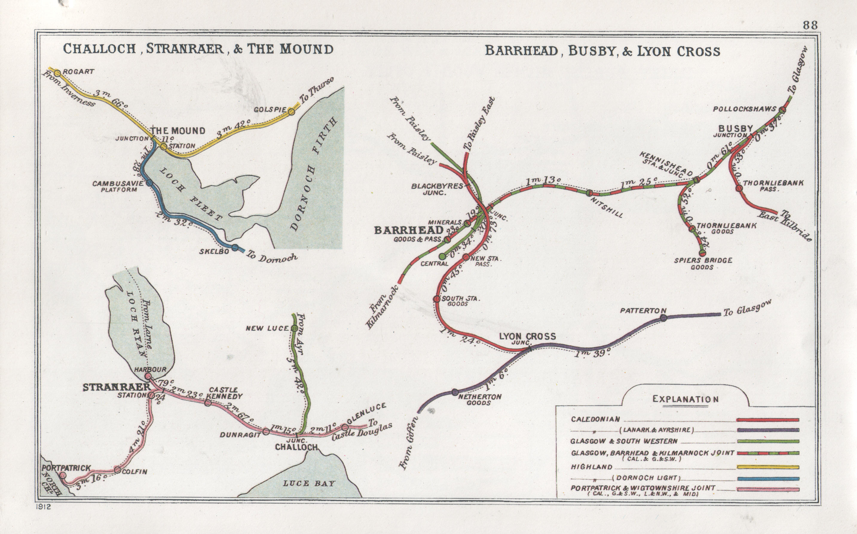 Pre Grouping railway junction around Challoch, Stranraer & The Mound; Barrhead, Busby & Lyon Cross